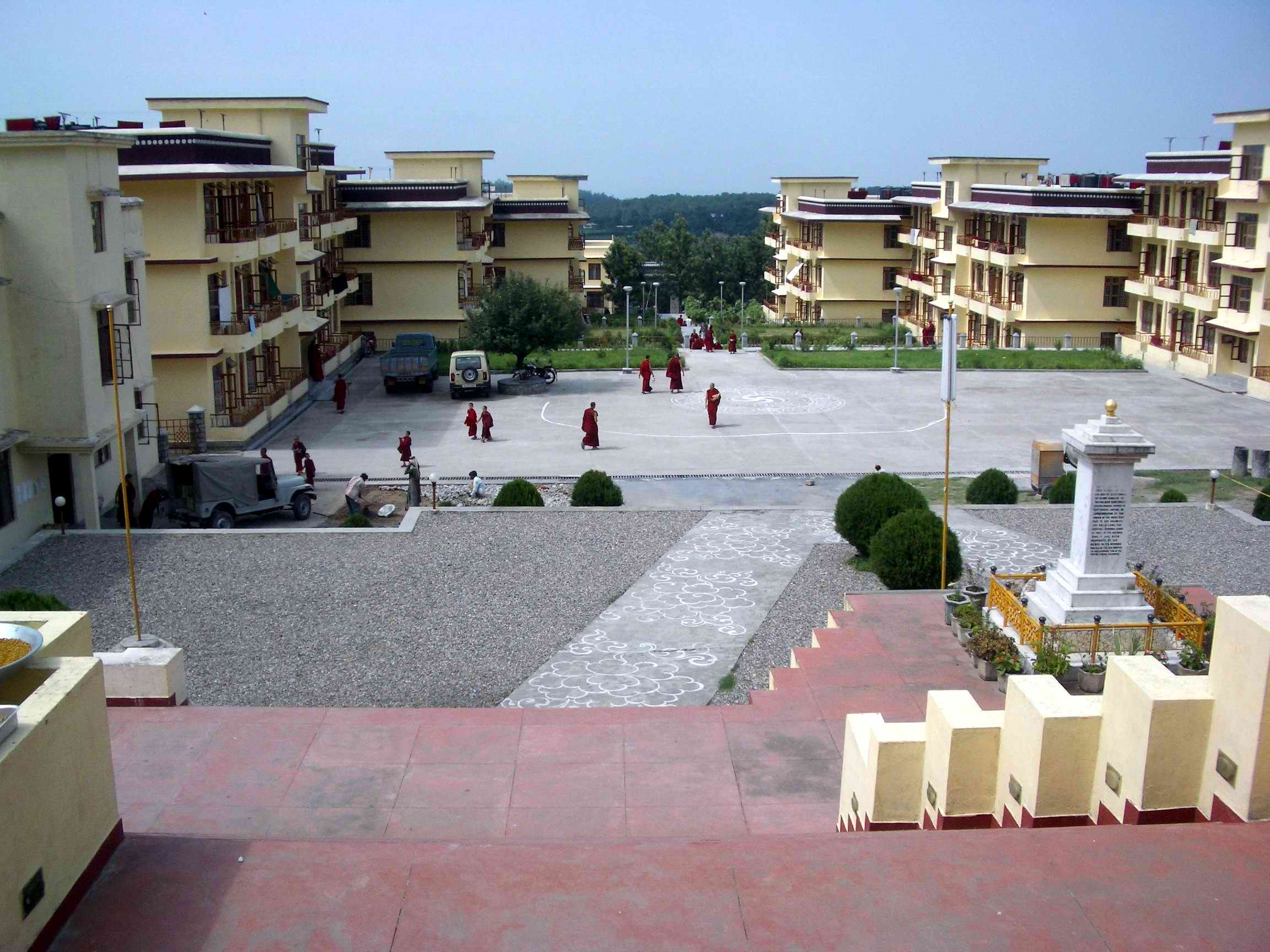 I took this photo when I was visiting in 2004